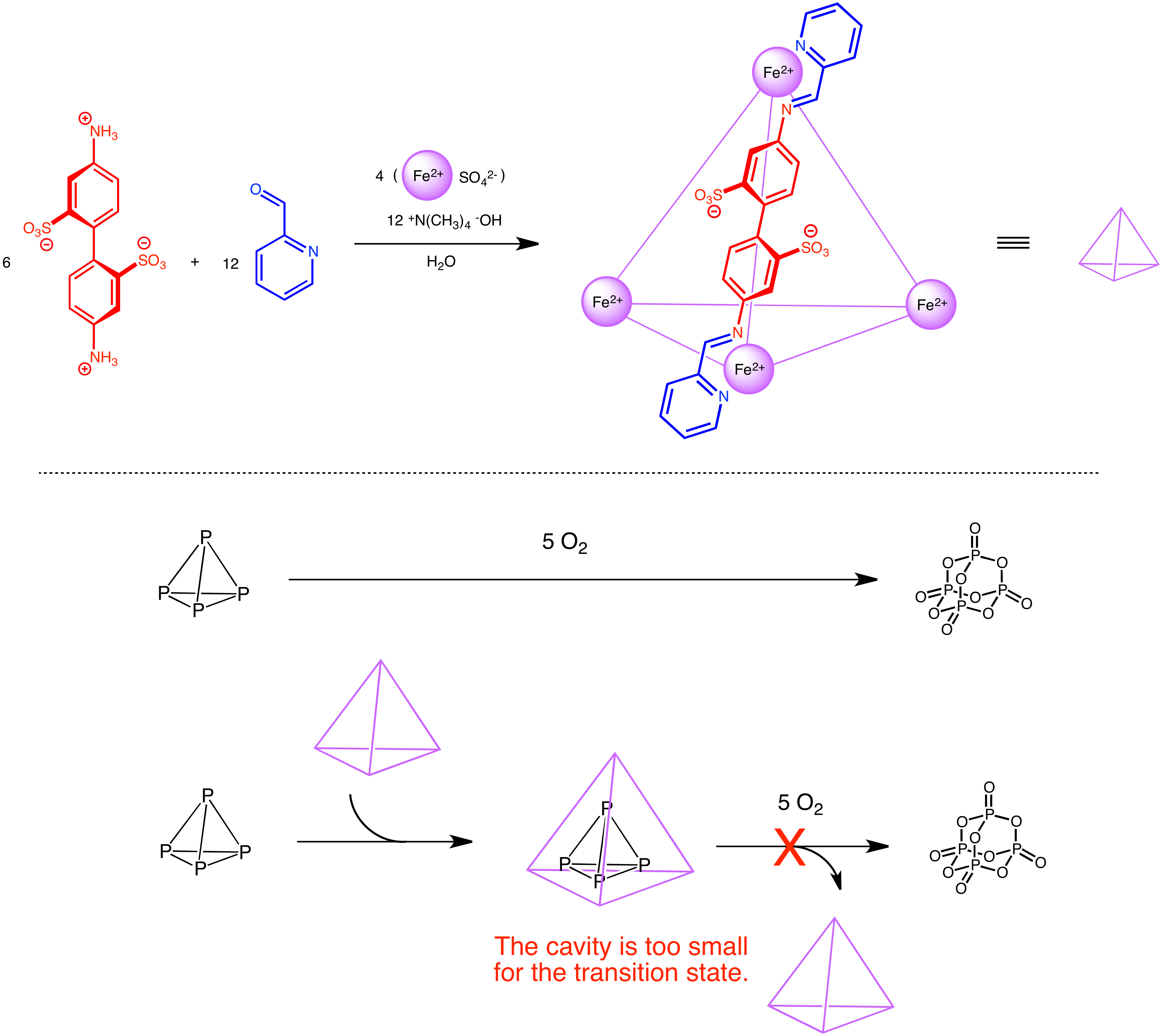 A subcomponent self-assembly tetrahedral capsule developed by Nitschke et al renders pyrophoric white phosphorous air-stable.